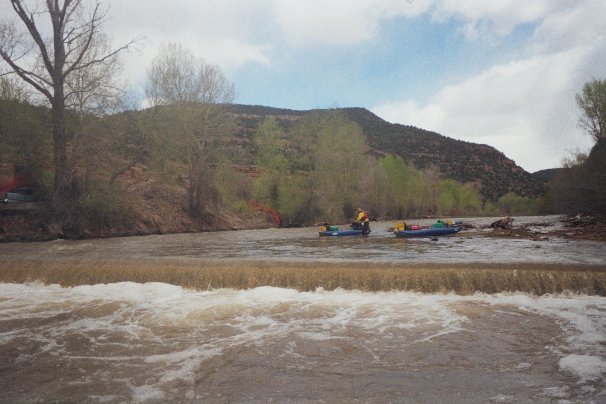 Boater scouting first diversion dam below Norwood on the San Miguel River